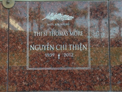 Headstone marking the resting place for the poet Nguyen Chi Thien at the Christ Cathedral in Orange County, California